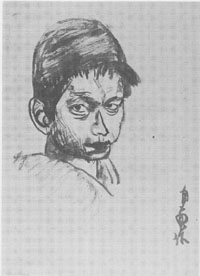 Hashimoto Heihachi selfportrait